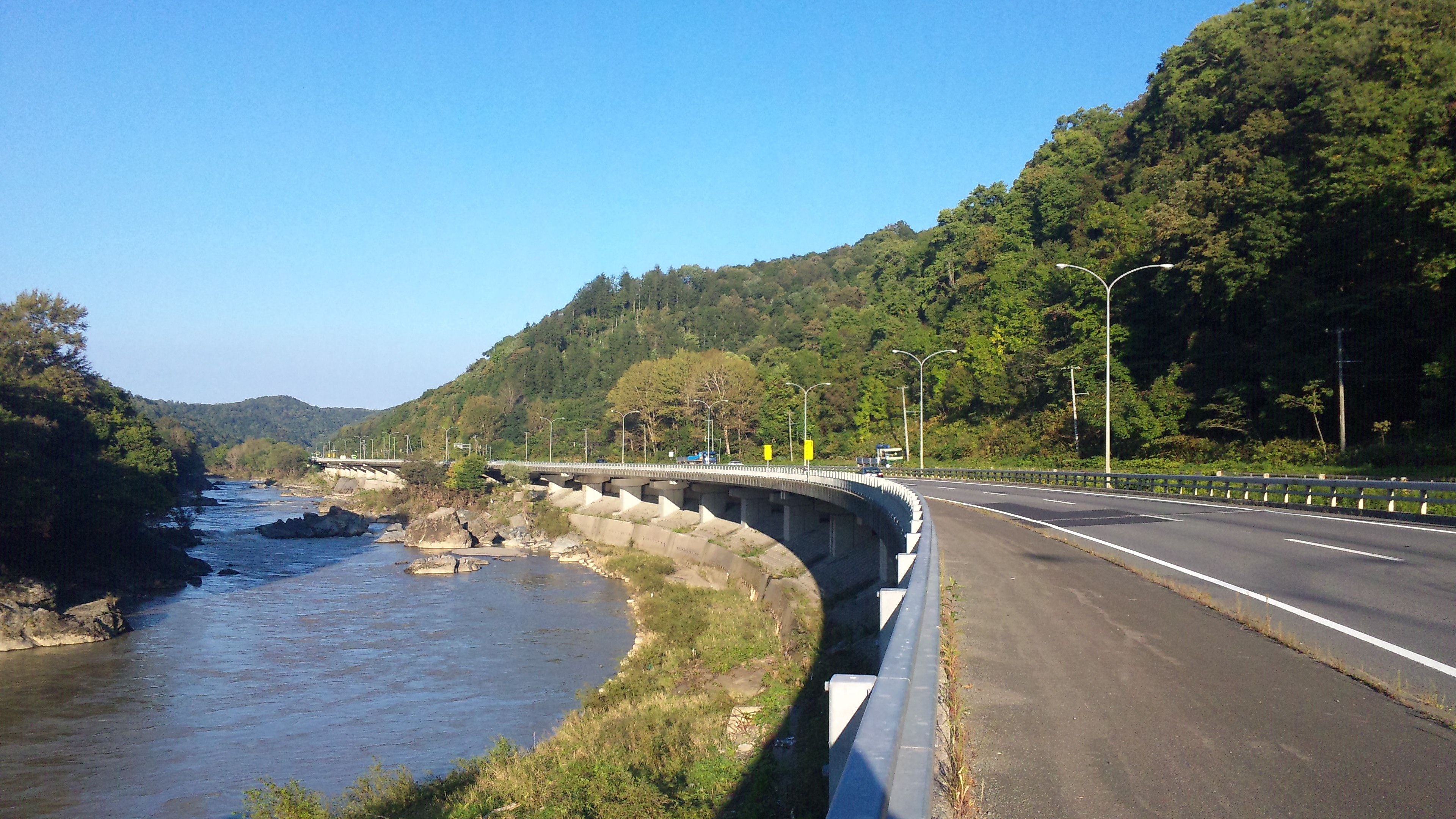 Iwamiohashi Bridge, in Asahikawa, Hokkaido, Japan